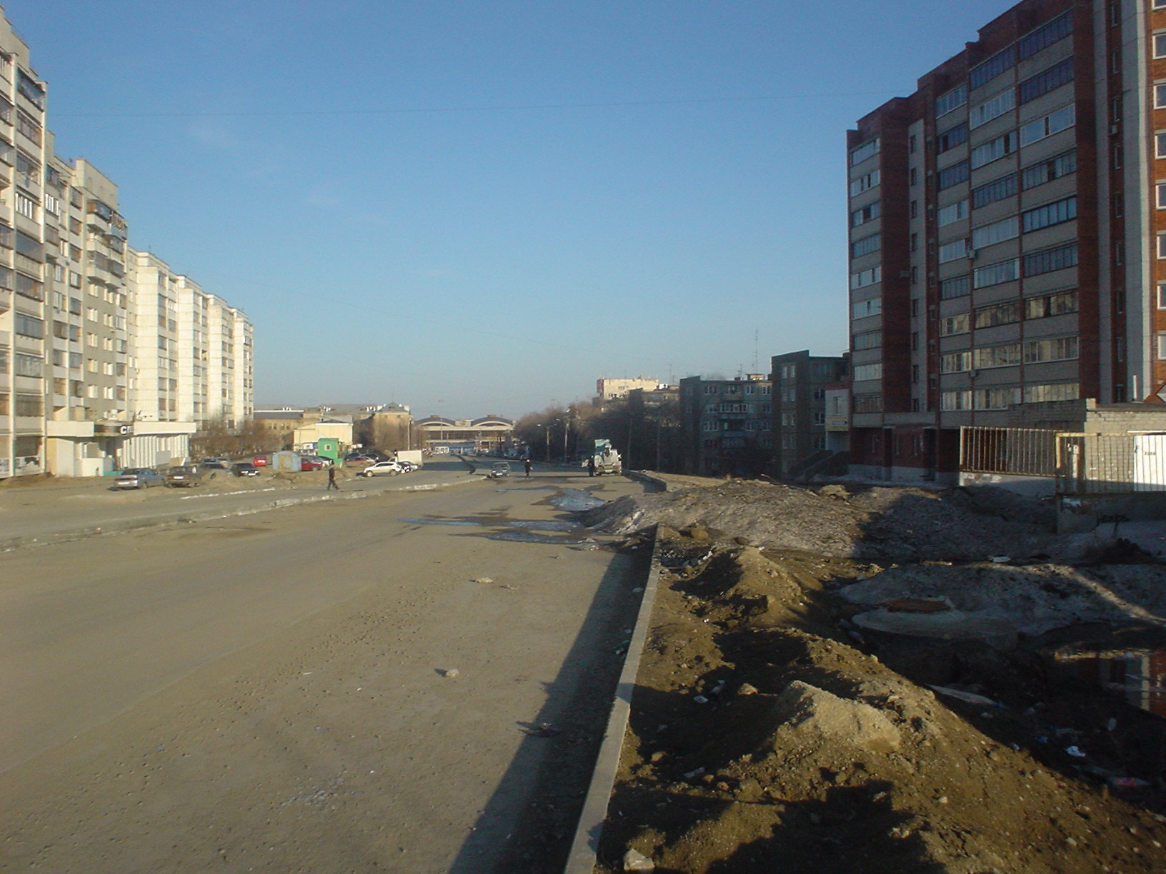 Ovchinnikova street, part of transport ring road in Chelyabinsk, Russia. View on railroad station Chelyabinsk.